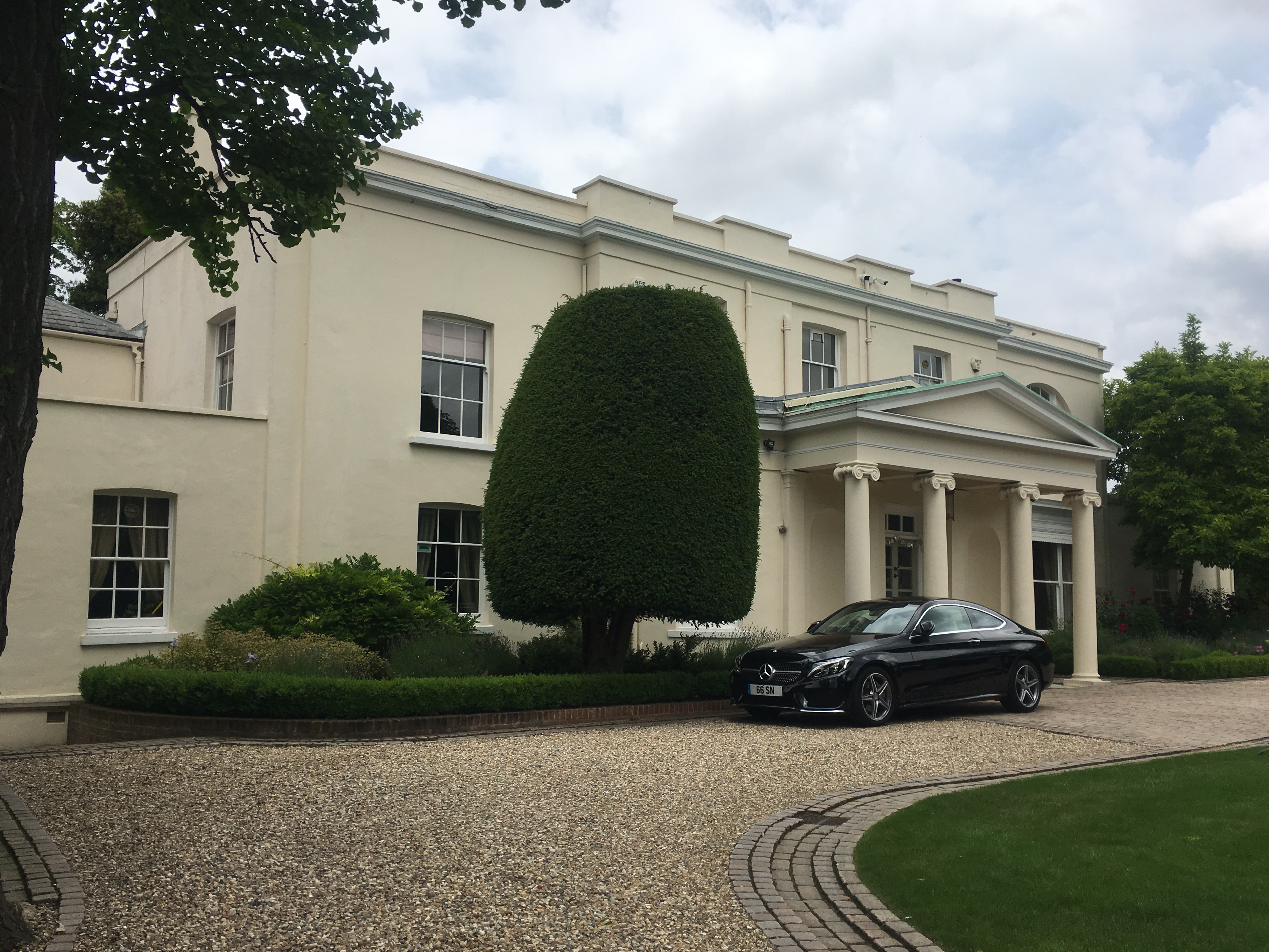 Glenlea Wikidata has entry Q26665253 with data related to this item.